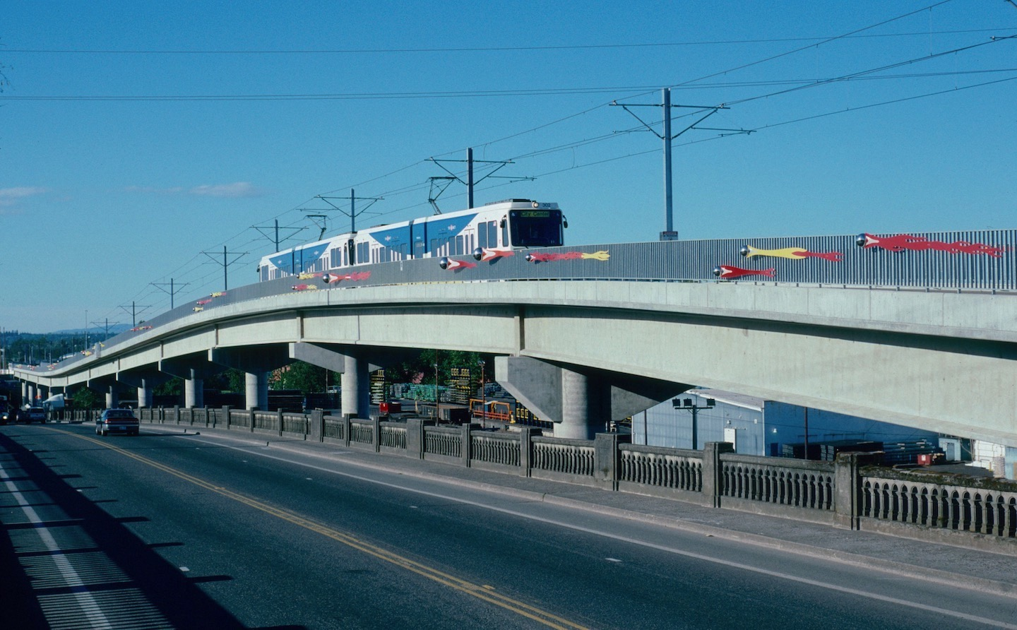 A MAX Yellow Line train southbound on the line's 3,850-foot-long (1,170 m) viaduct next to Denver Avenue, north of Argyle Street. This train is composed of two TriMet "Type 3" light rail cars, which are 2003/4-built Siemens SD660s. The Yellow Line opened in 2004, and this photo was taken on the second day of service.